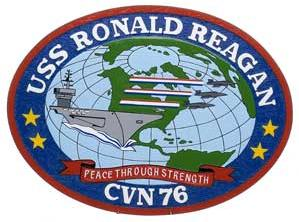 USS Ronald Reagan (CVN 76) insignia.